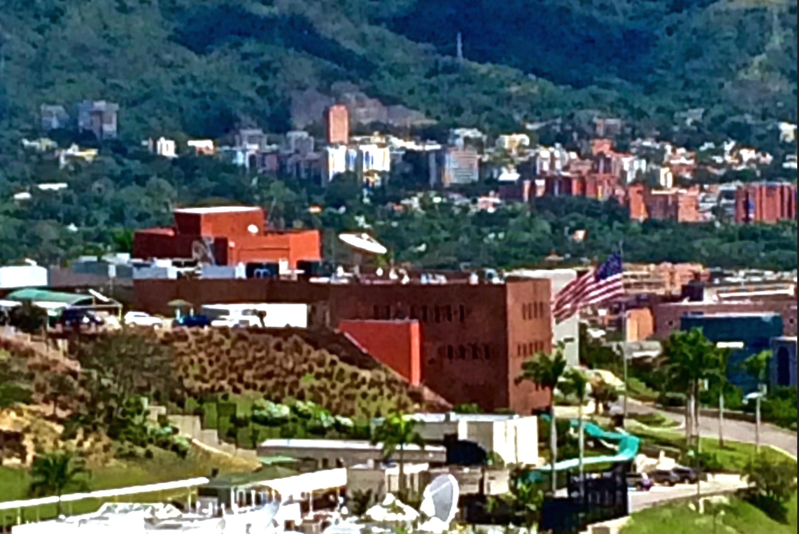 Embassy of the United States in Caracas in 2015